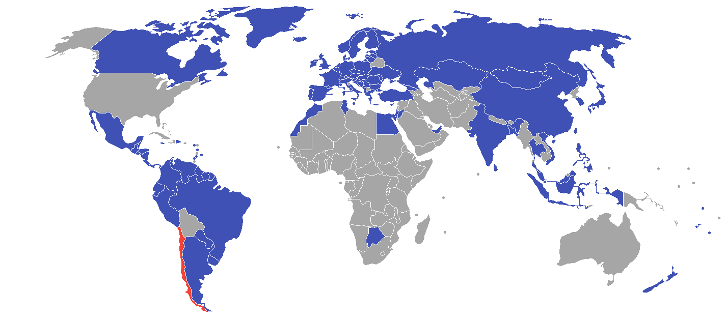 Visa policy of Chile for holders of diplomatic or service category passports Chile Visa free access for diplomatic and service category passports